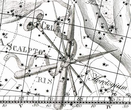 Caelum the chisel